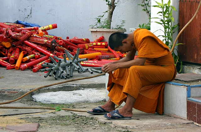 Buddhist monk in Bangkok Thailand wearing saffron robes